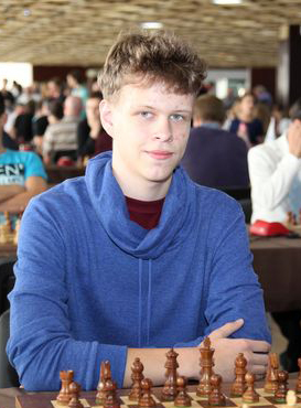 Vladislav Artemiev